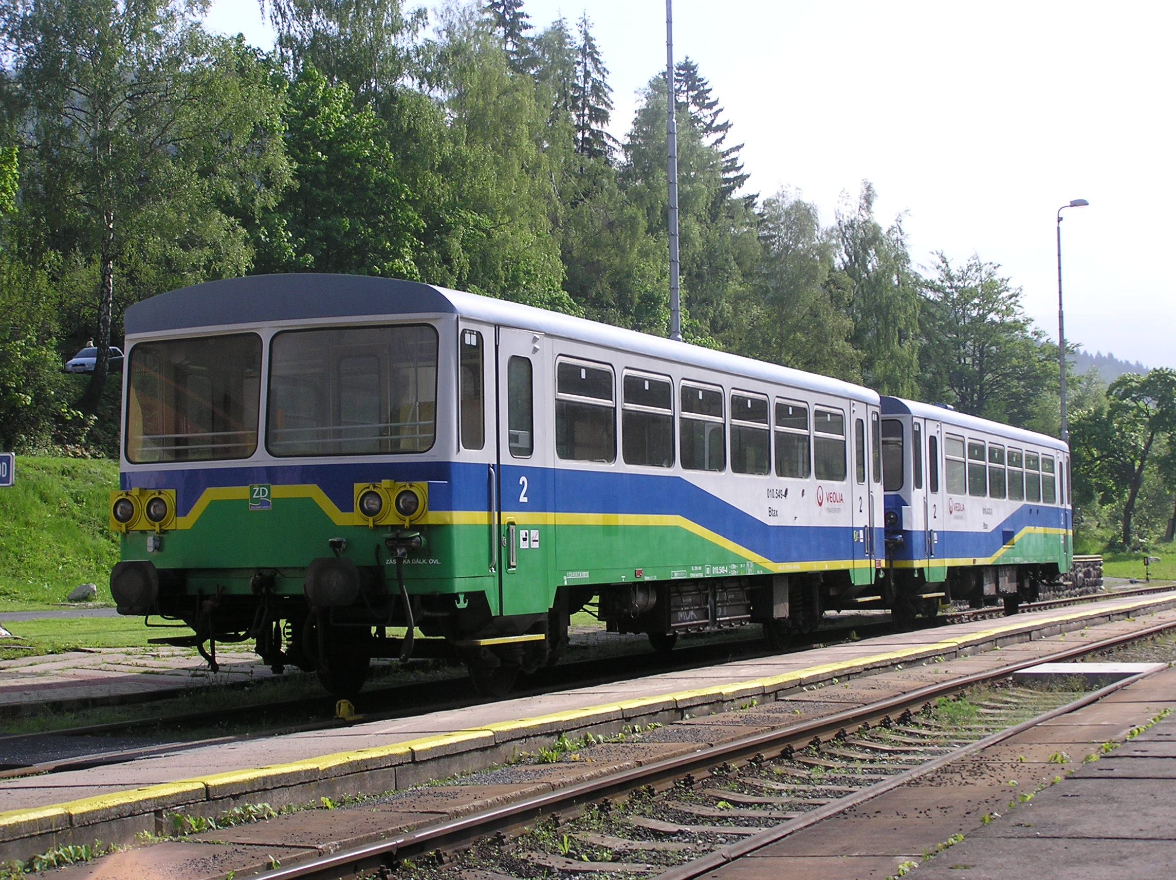 Railway coaches 010 Železnice Desná in Kouty nad Desnou railway station, Olomouc Region, Czech Republic